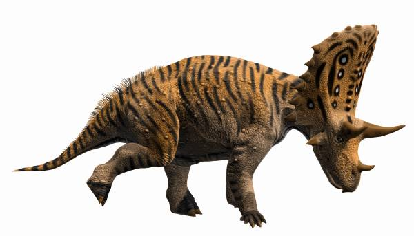 Judiceratops tigris